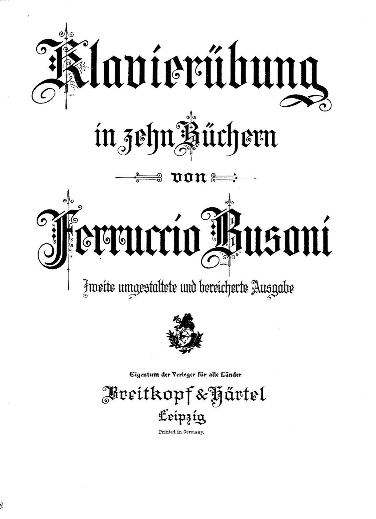 Title Page for Klavierübung in zehn Büchern von Ferruccio Busoni